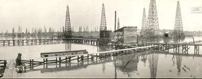 Part of a panoramic photograph of the Goose Creek Oil Field, 1919. Cropped from the larger panorama to fit alongside the lead of the article.